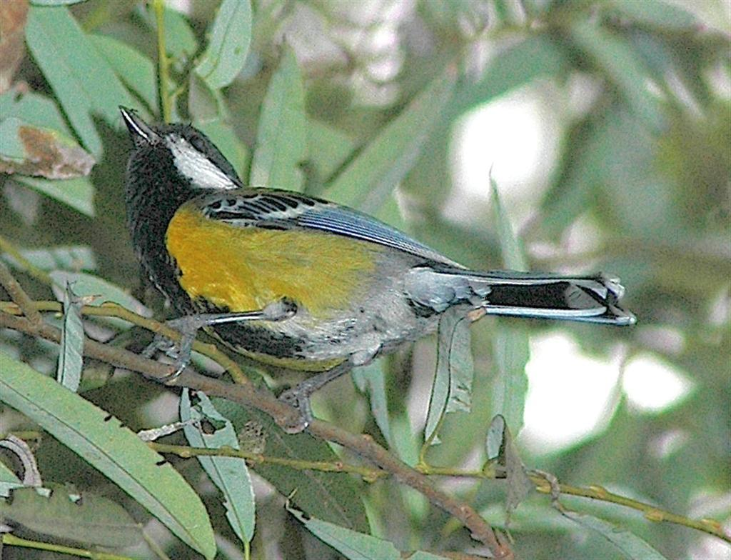 Green-backed Tit (Parus monticolus)